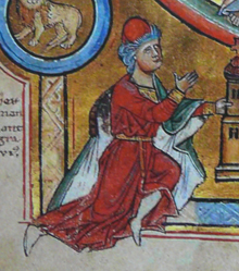 Herrman I of Thüringia